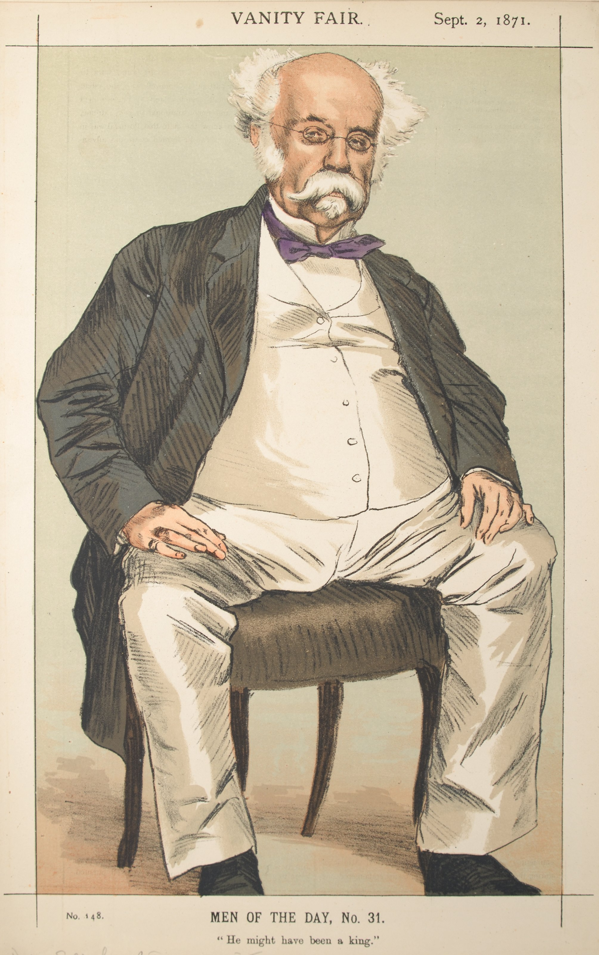 Men or Women of the Day No.31: Caricature of The Duke of Saldanha. Caption reads: "He might have been a King."